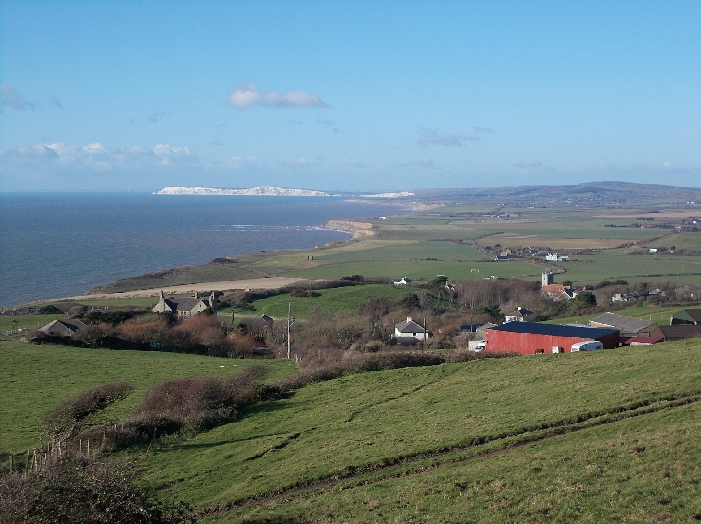 View of the south-west of the Isle of Wight, UK, from St Catherine's Down